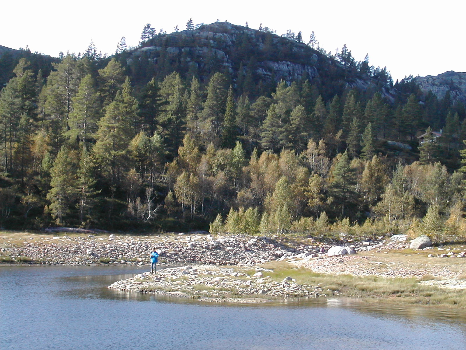 Hovatn - Setesdalen, Norway. Hovatn is used as source for a hydro electric station. The water level of is regulated, and might - as seen on the picture - vary by several meters.